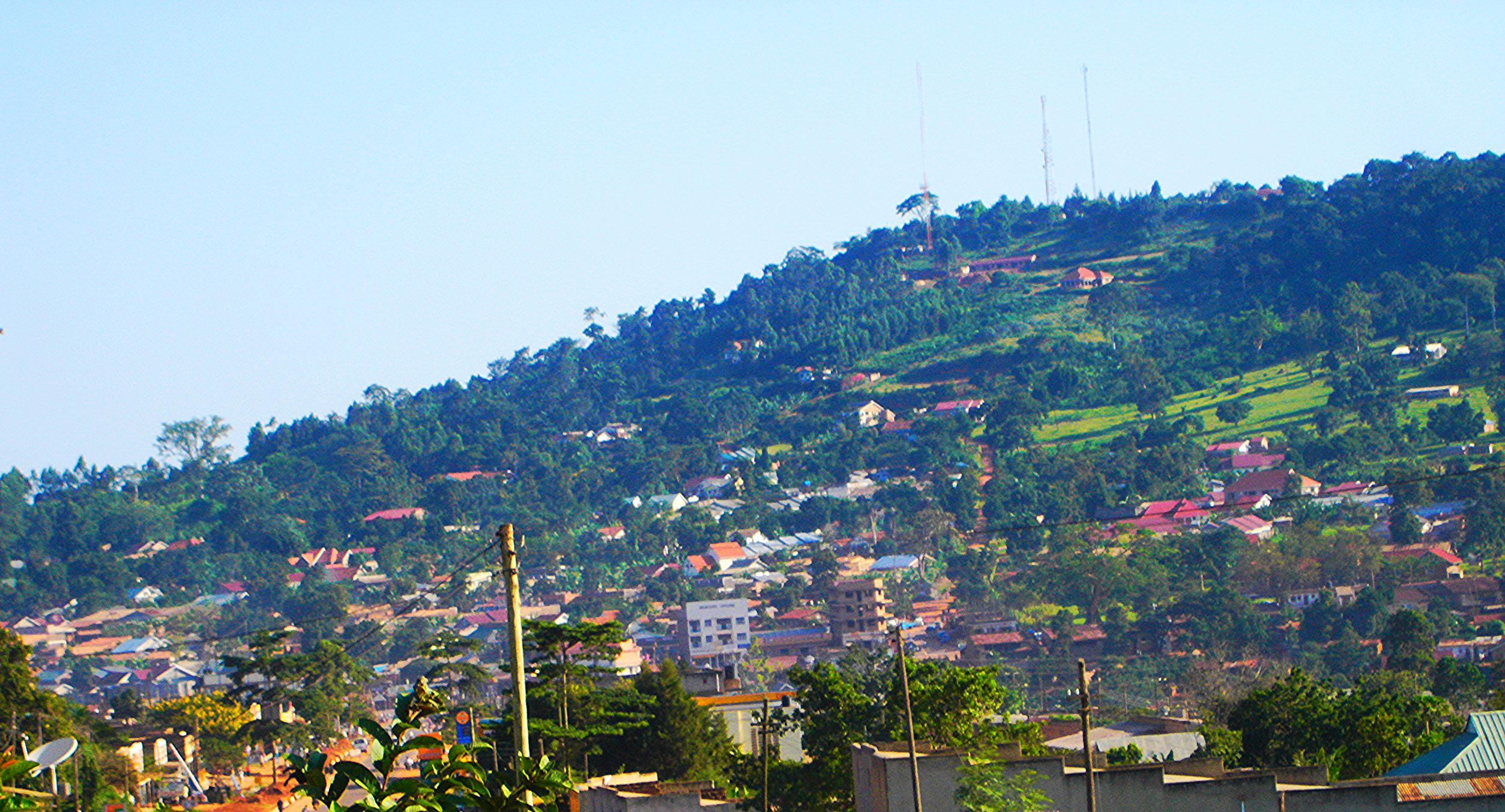 Mukono, Uganda